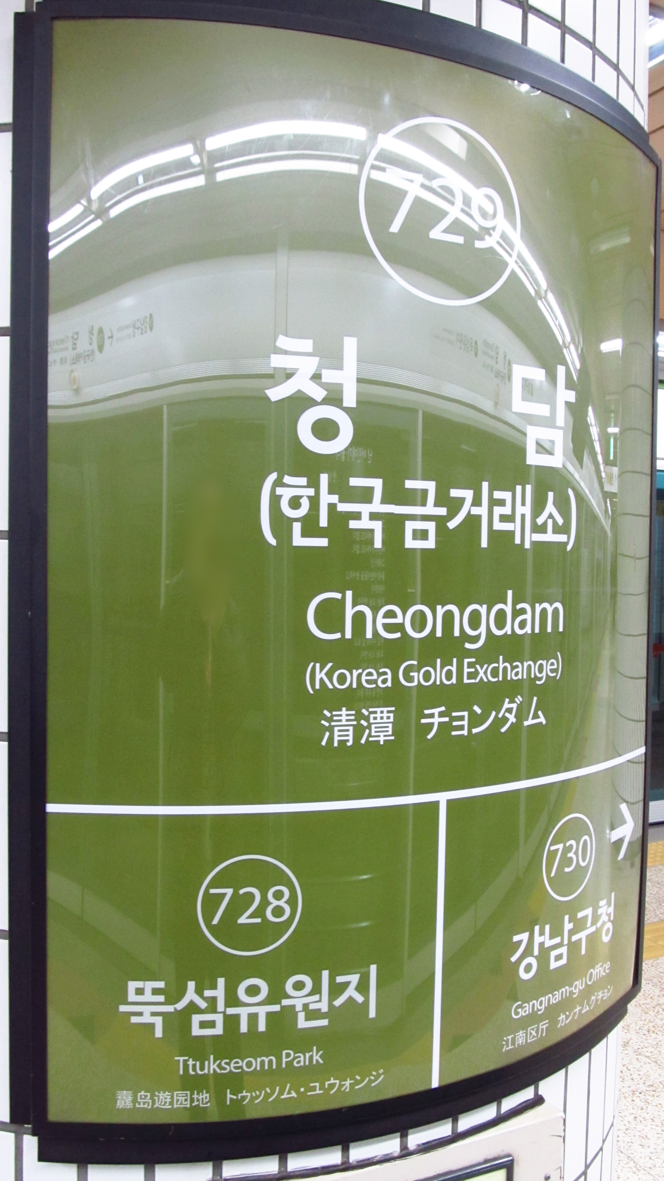 A sign of Cheongdam Station on Seoul Subway Line 7